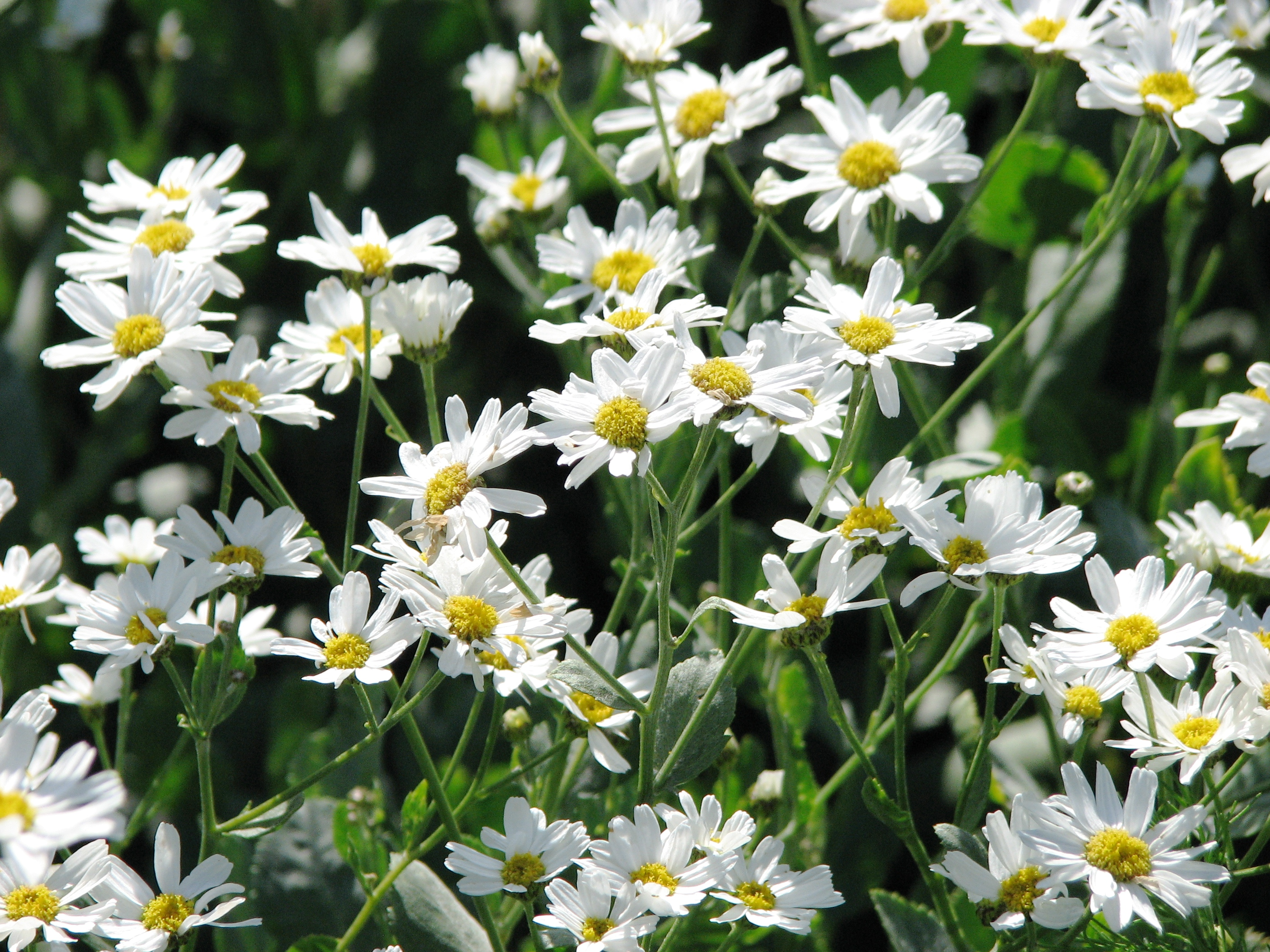 Tanacetum balsamita. From the collection of the Main Botanical Garden of Academy of Sciences in Moscow (perennials plot).